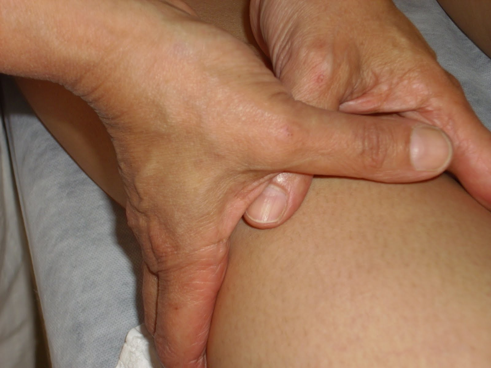 Development of the manual lymphodrainage of the patient's leg.